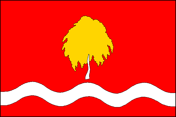 Municipal flag of Březová village, Karlovy Vary District, Czech Republic.